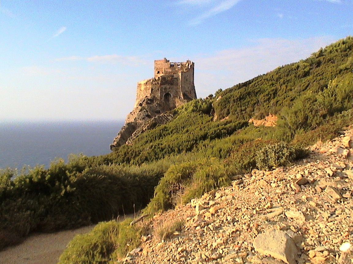 Italy, Tuscany, Gorgona Island. It is part of the Tuscan Archipelago and is the closest to Livorno. The old tower on the west coast.